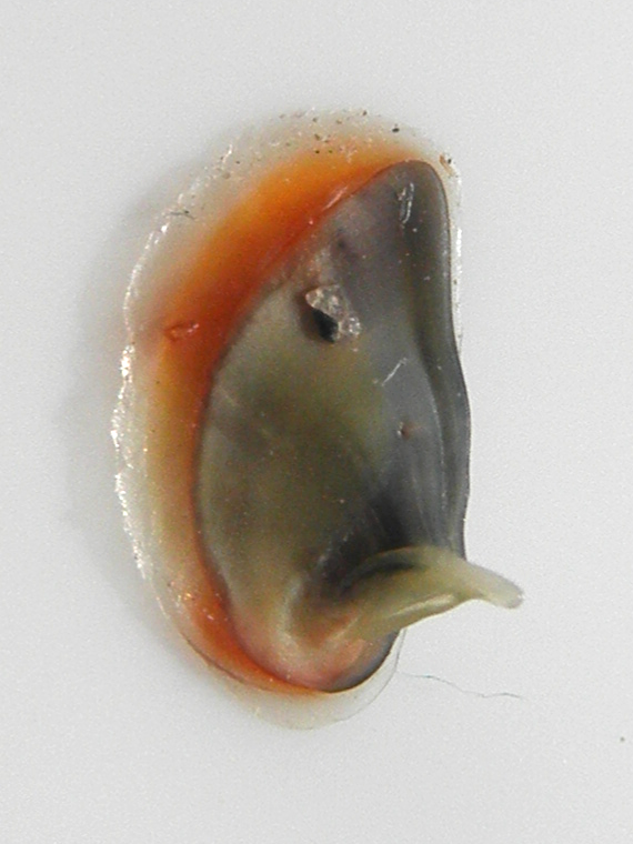 Photo of an inner side of an operculum of Theodoxus fluviatilis. The length of the operculum is 4 mm and the width of the operculum is 3 mm including the rib.